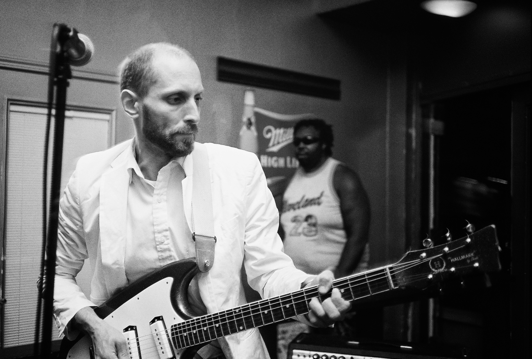 Justin Moyer performing in Fayetteville, Ark., in March 2012.